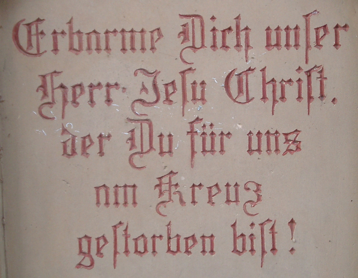 Textura script on old stone crucifix in Sechtem, Rhineland, Germany. "Have mercy upon us Lord Jesus Christ, who has died for us at the cross!"